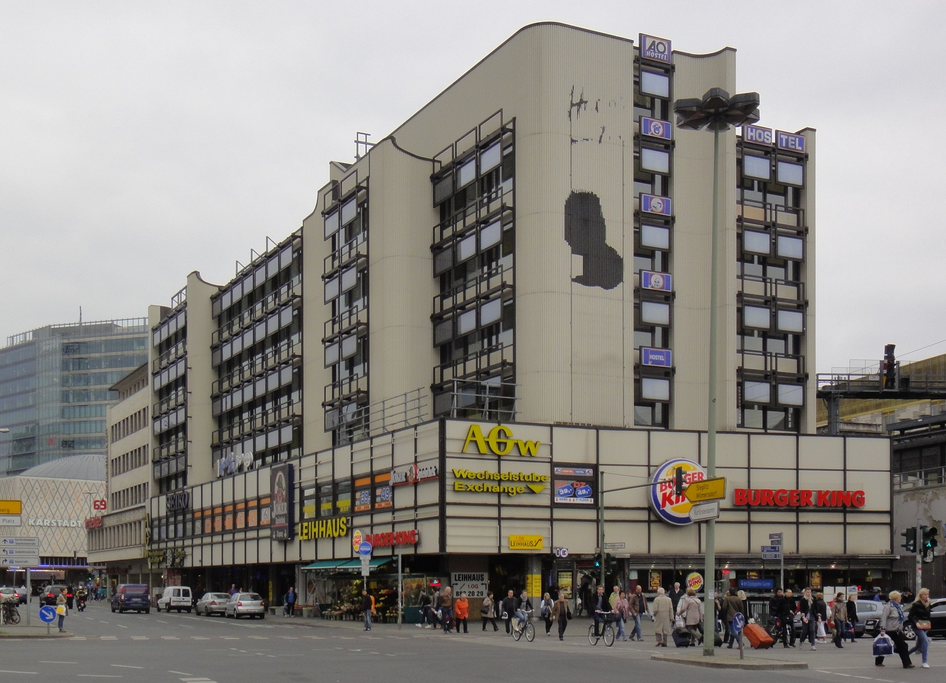 Building on the corner Joachimtaler Strasse/Hardenbergstrasse close to Berlin Zoologischer Garten. Inside the multi-puporse building are a Burger King, an AO Hostel, a pawnshop and the Beate Uhse Erotic museum